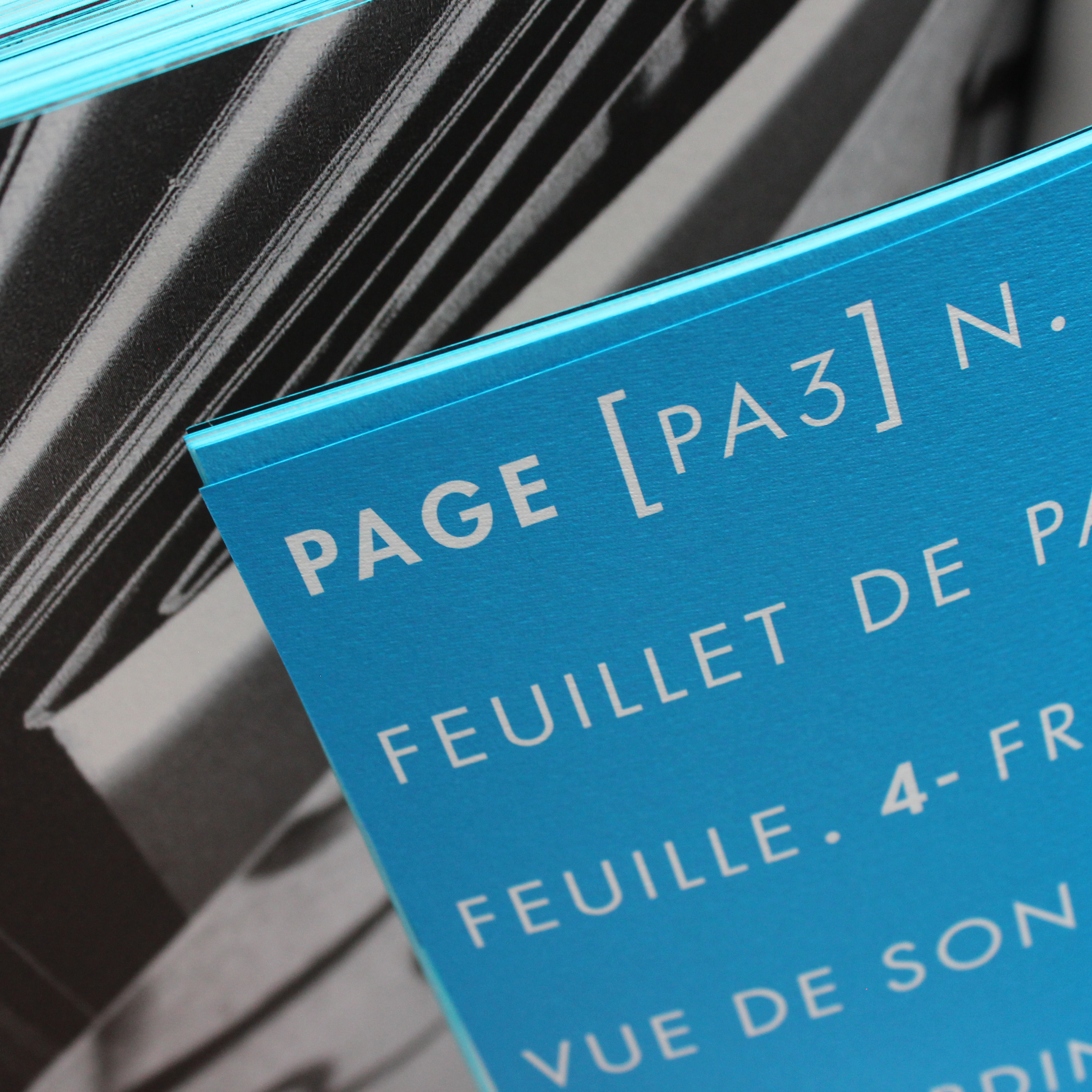 This book would like to explore further the page as a cultural phenomenon. Its architecture, its materiality, its ability to remain persuasive through time. Its history. And its future which inspires us – with or without the codex – reframing the meaning of the world.